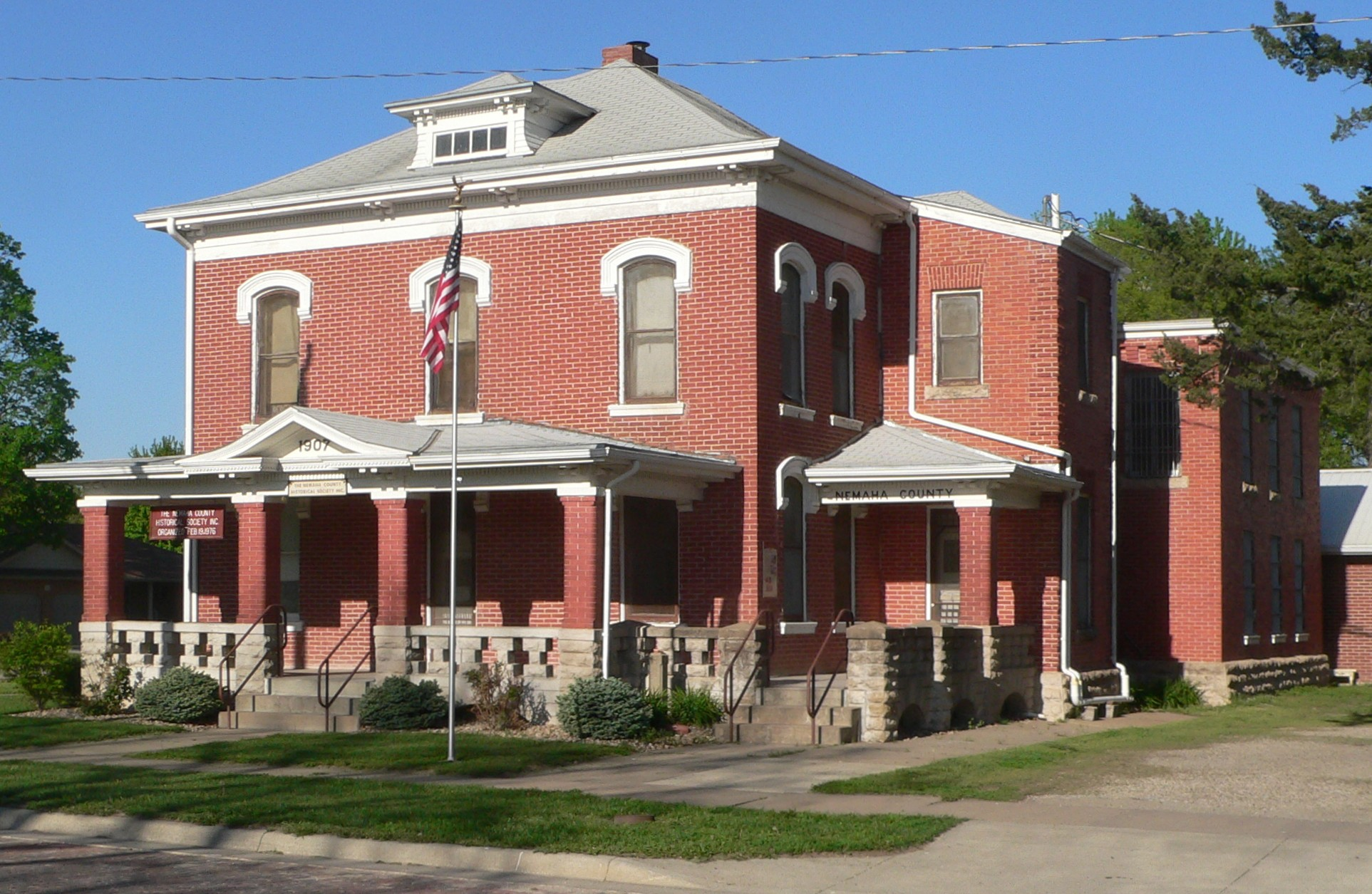 Nemaha County jail and sheriff's residence, now occupied by the Nemaha County Historical Society, at southeast corner of 6th and Nemaha Streets in Seneca, Kansas; seen from the southwest, looking obliquely across 6th.